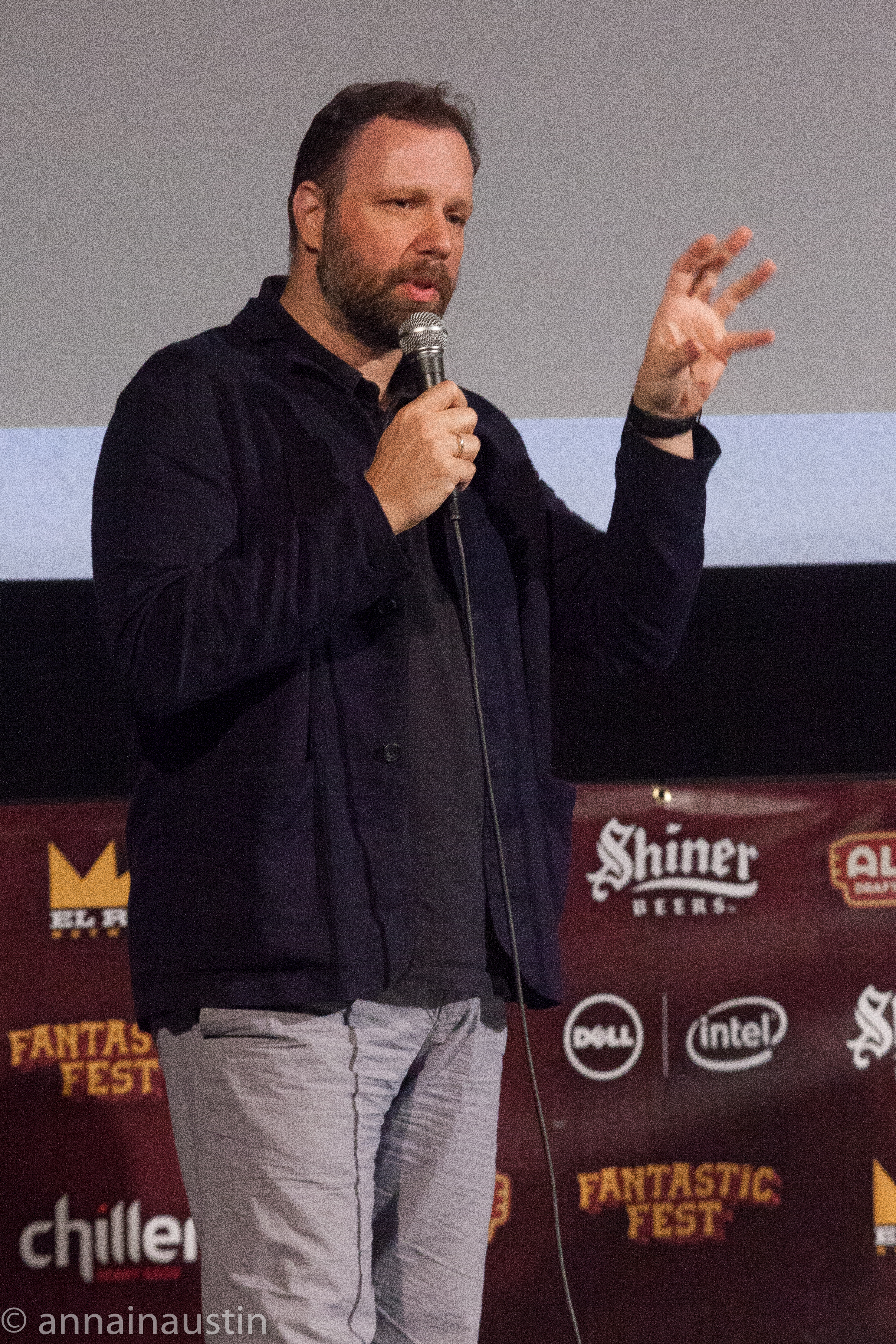 Yorgos Lanthimos, Tim League, THE LOBSTER, Fantastic Fest 2015-9972.jpg